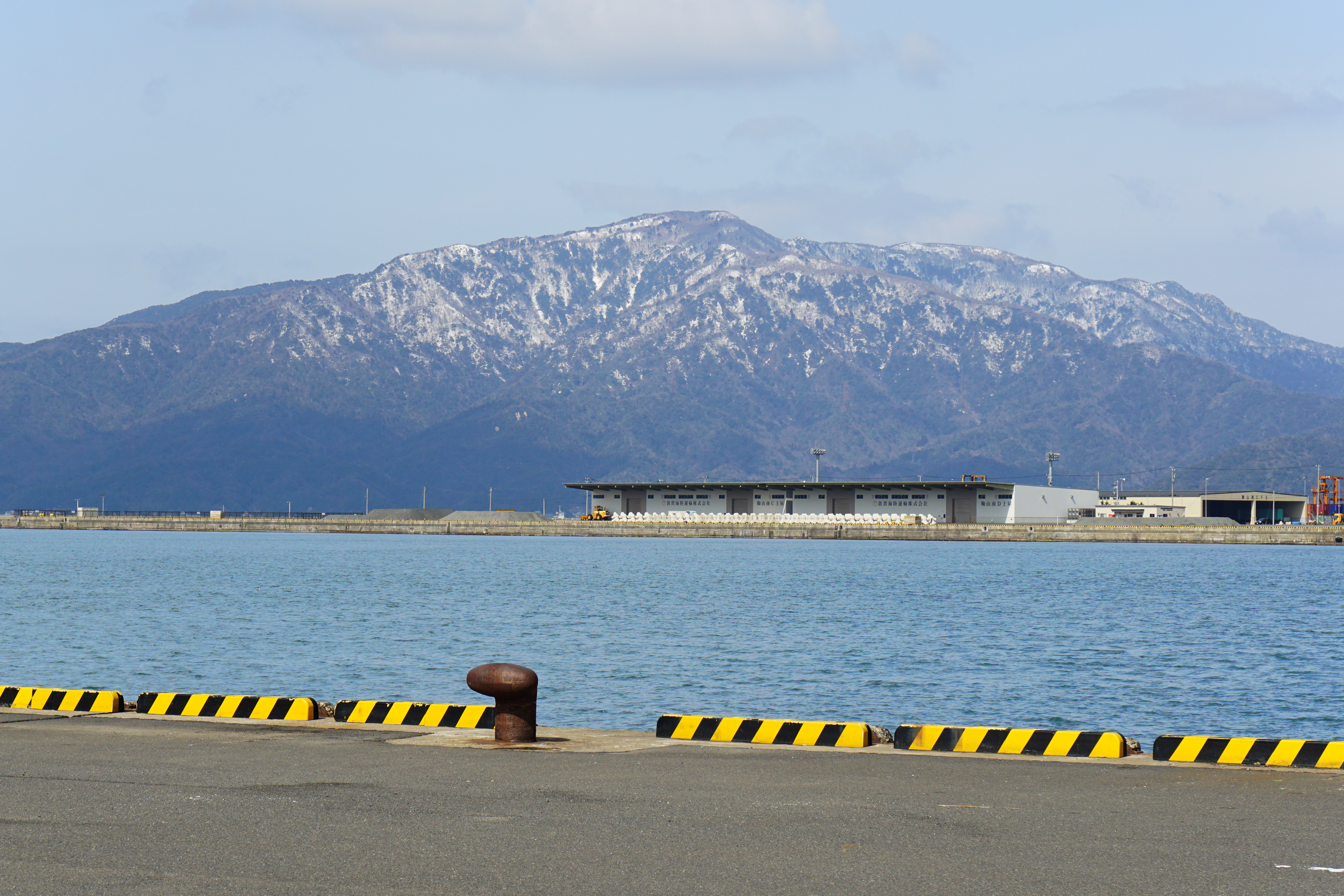 Mount Saiho and Mount Sazae view from Tsuruga Port in Tsuruga, Fukui prefecture, Japan.